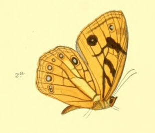 Lasiommata satricus (in original as Rhapicera satricus)